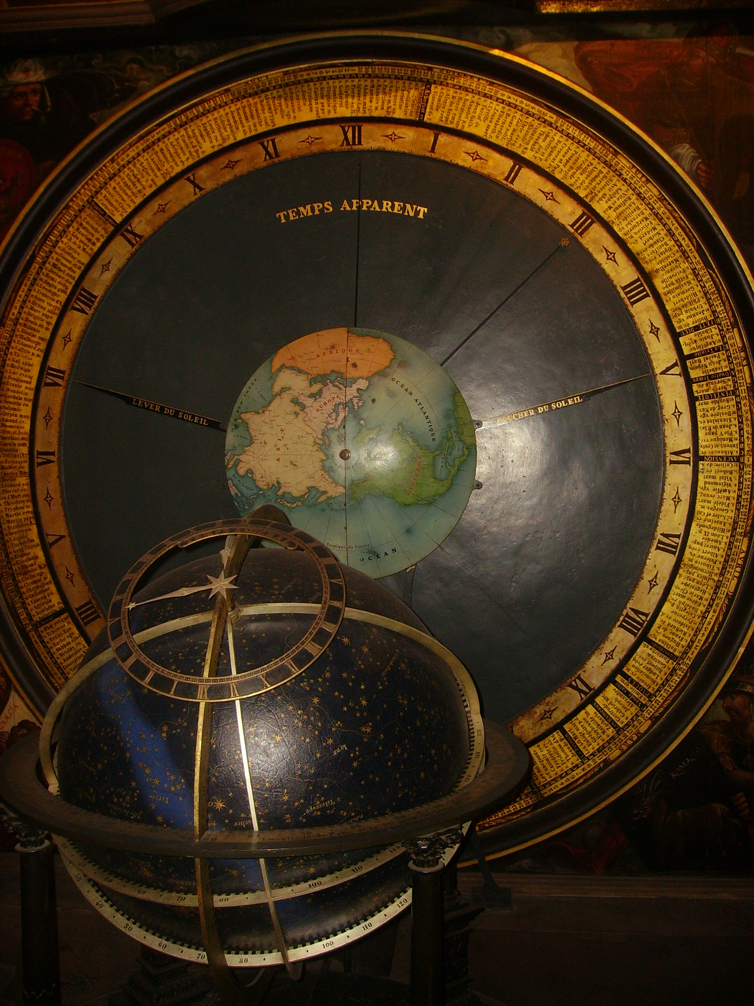 Astronomical Clock of the catholic Cathedral of Our Lady, Strasbourg